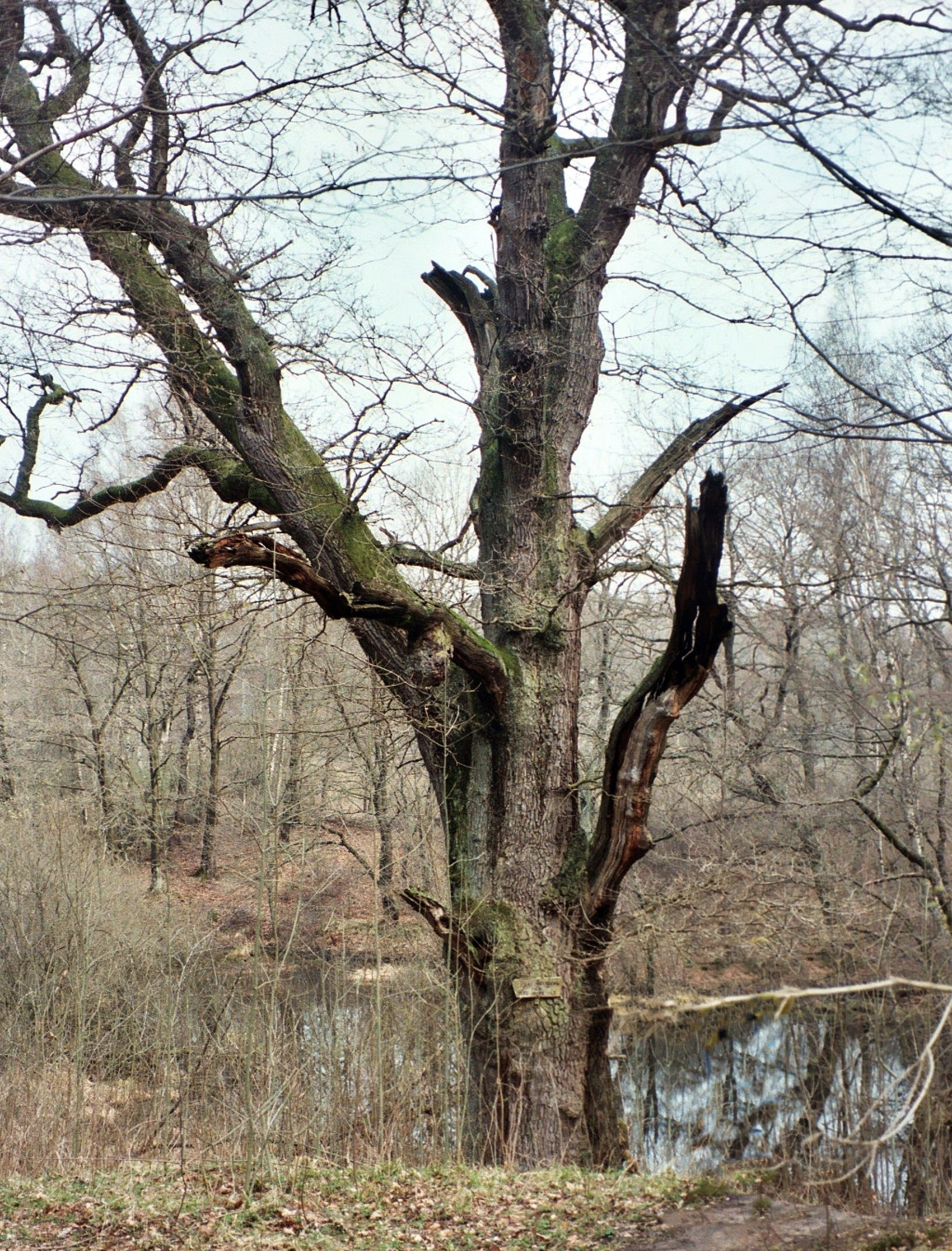 Walkenried, the oak on the Priorteich